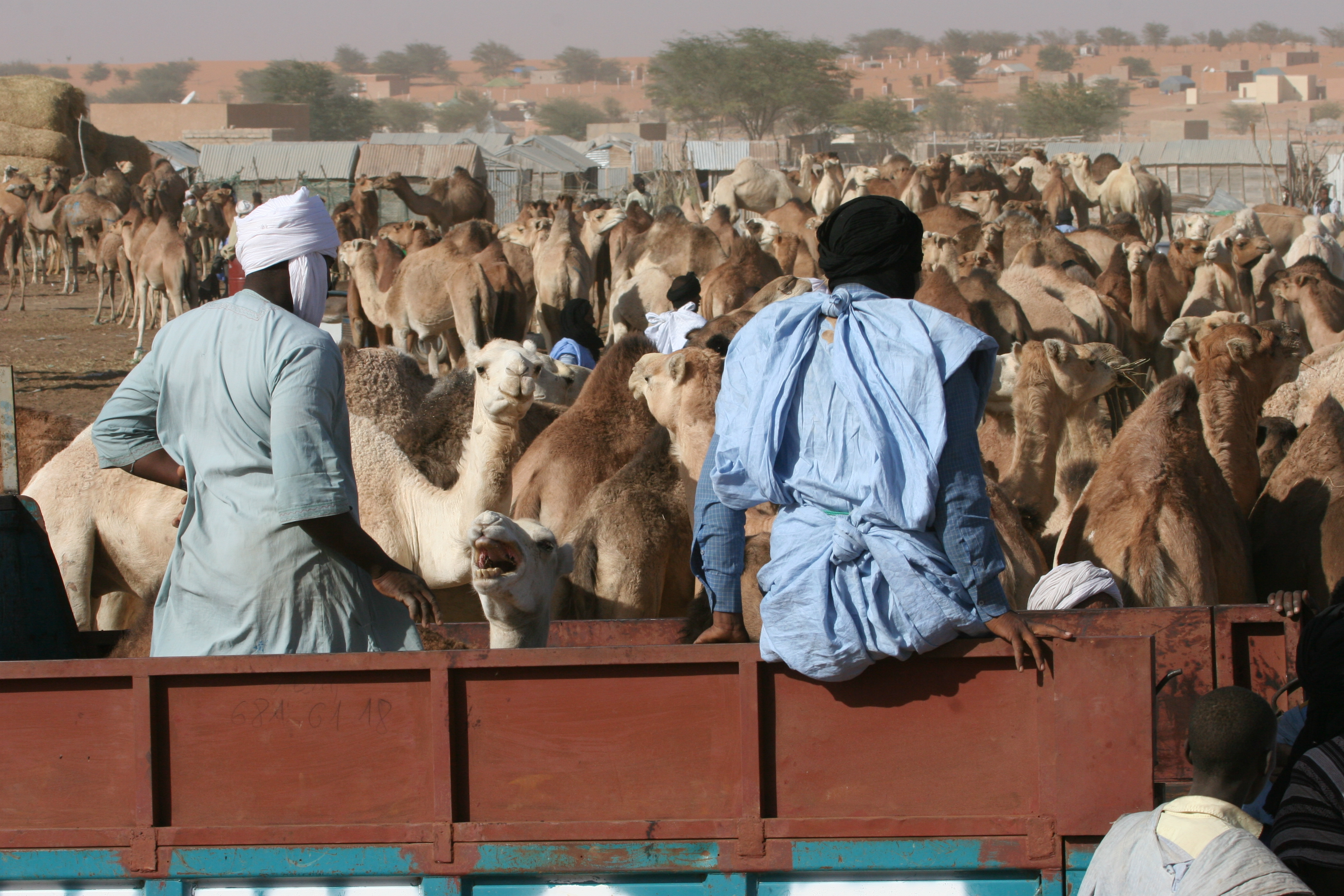 Camel market in Nouakchott (Mauritania)